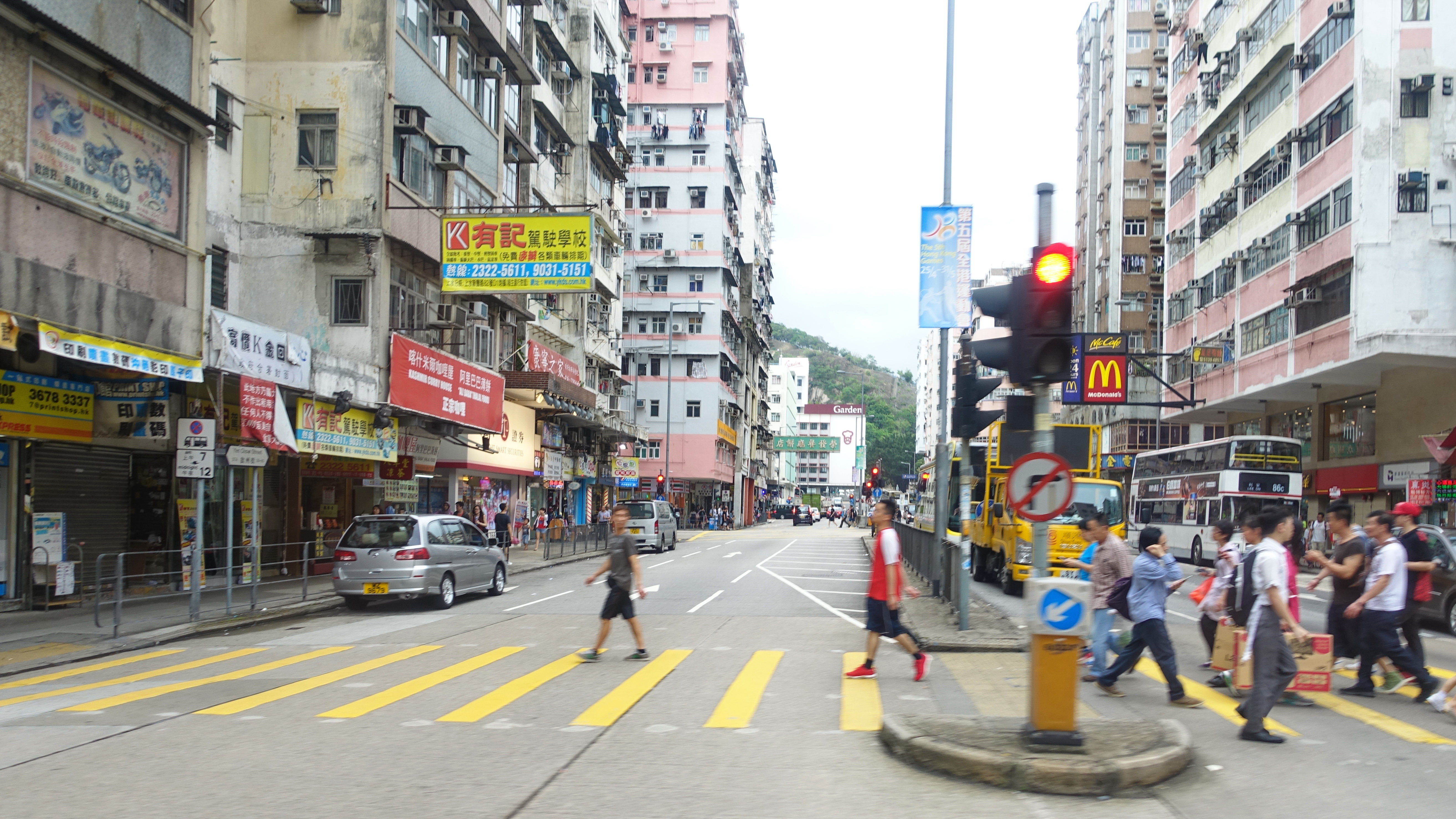 Yen Chow Street near Cheung Sha Wan Road, north-east view, Kowloon, Hong Kong.